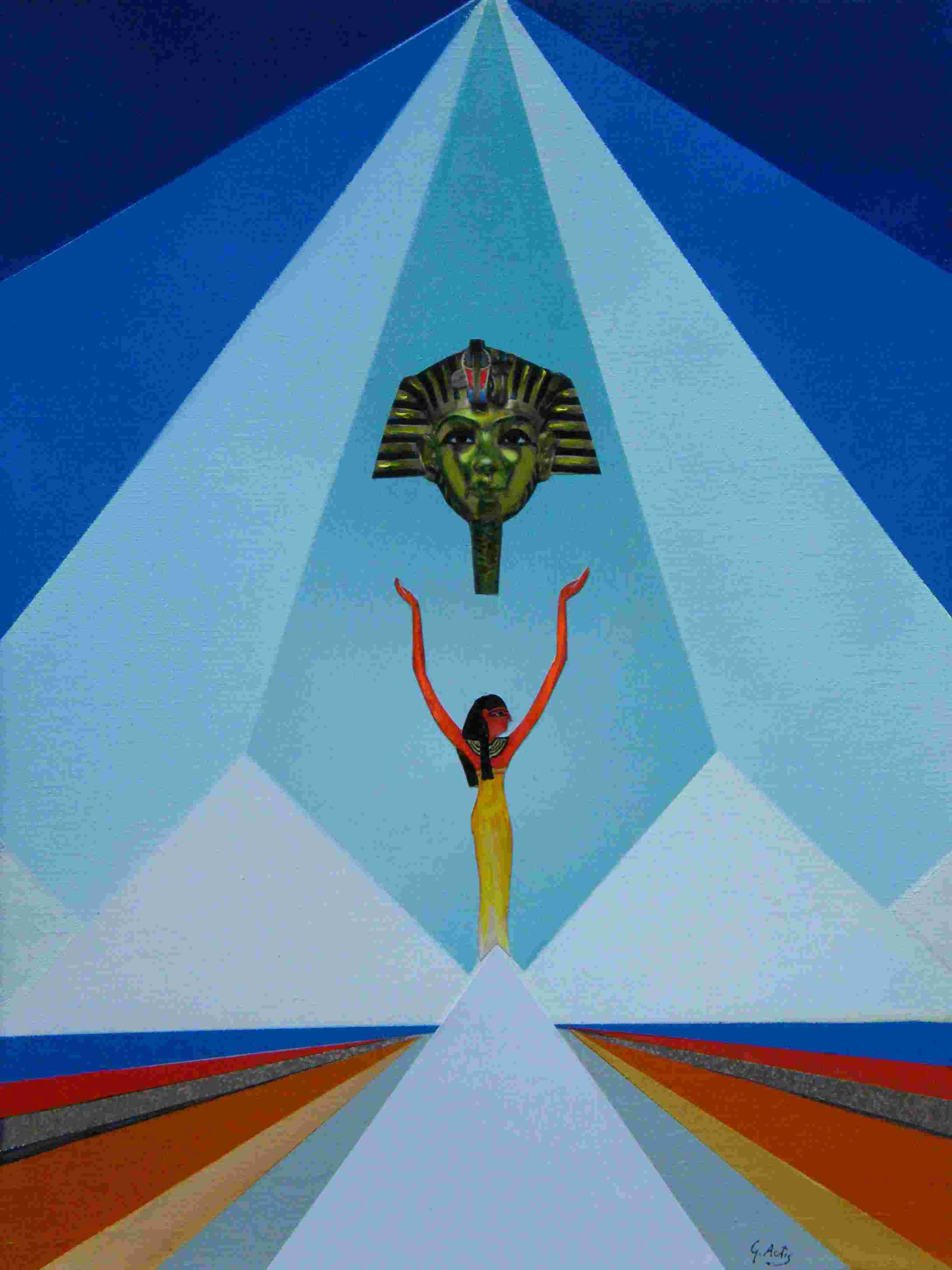 This painting was created as a Homage to Beverly Matherne's poem The Blues Cryin'